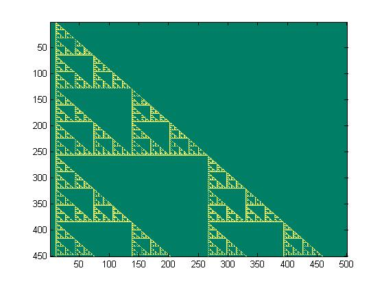 cellular automata production of sierpinski triangle